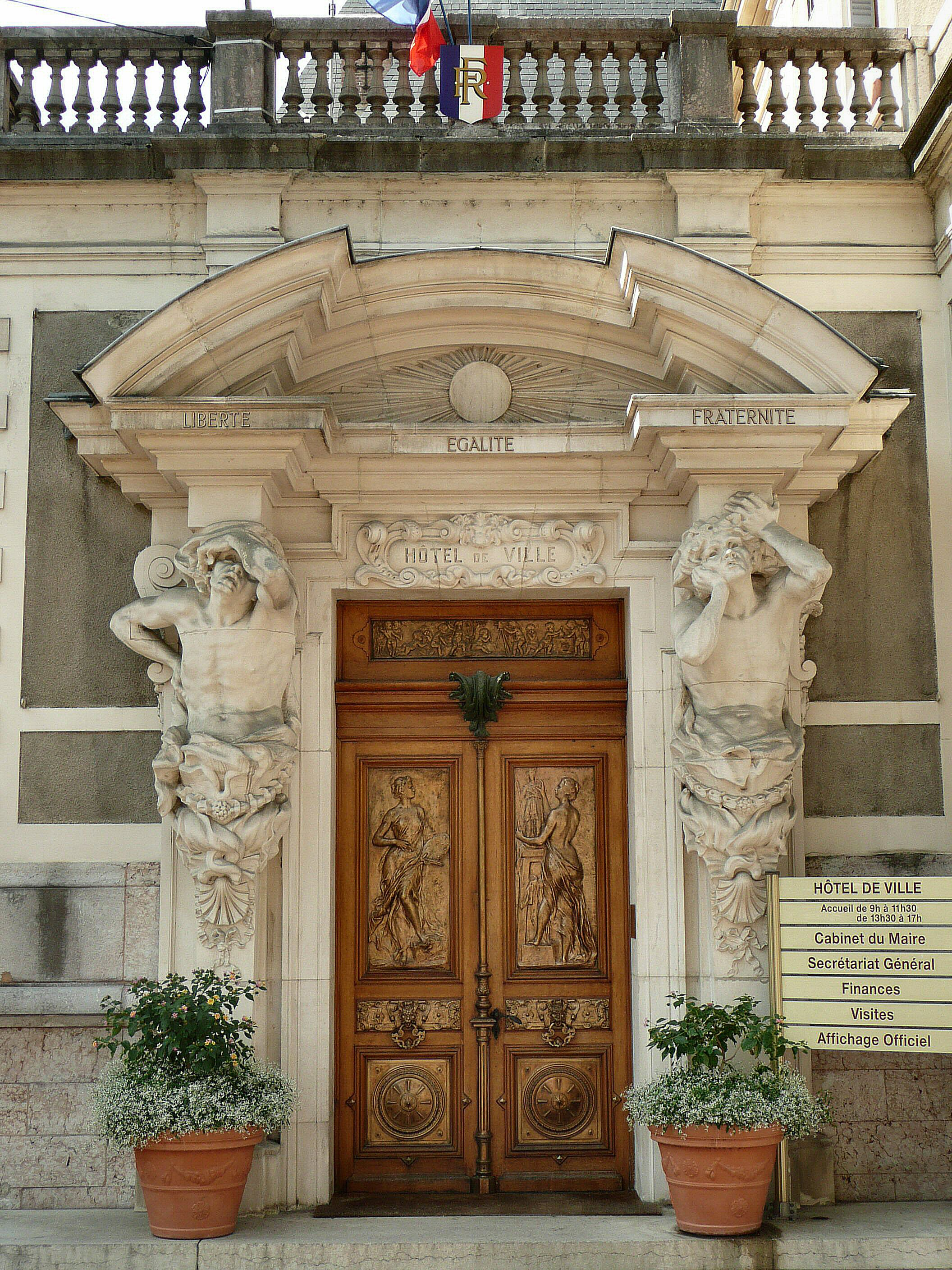 East entrance of Évian-les-Bains city hall. Caryatids on both sides are inspired by those of Pierre Puget sculpted for Toulon city hall.